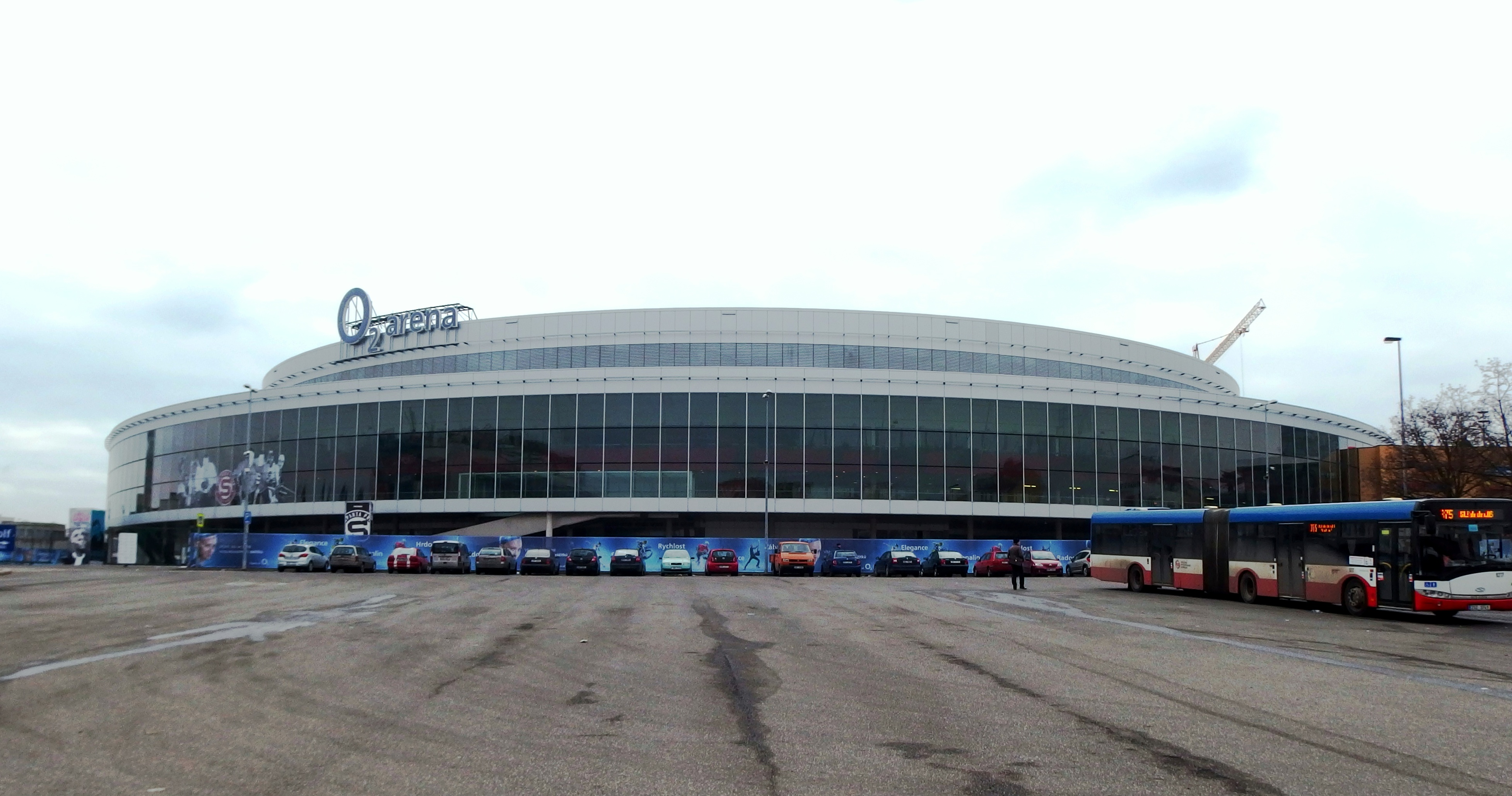 Prague, Czech Repaublic.